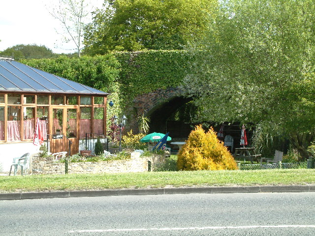 Verwood, old railway bridge. Site of Verwood Railway Station, Dorset.